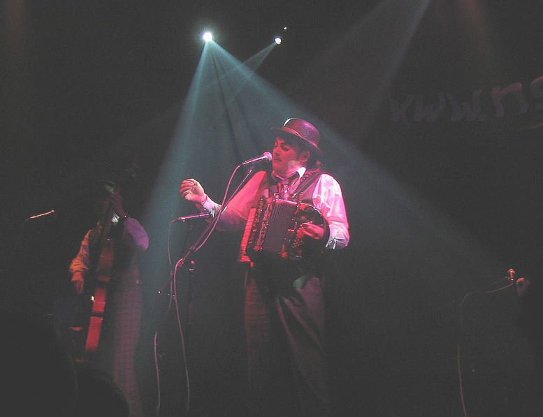 Tiger Lillies during a concert in Prague, May 2005